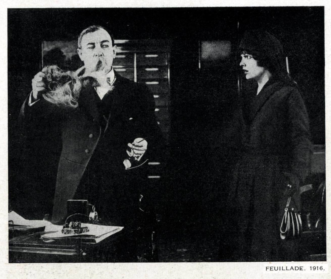 Screenshot from the film Judex by Louis Feuillade